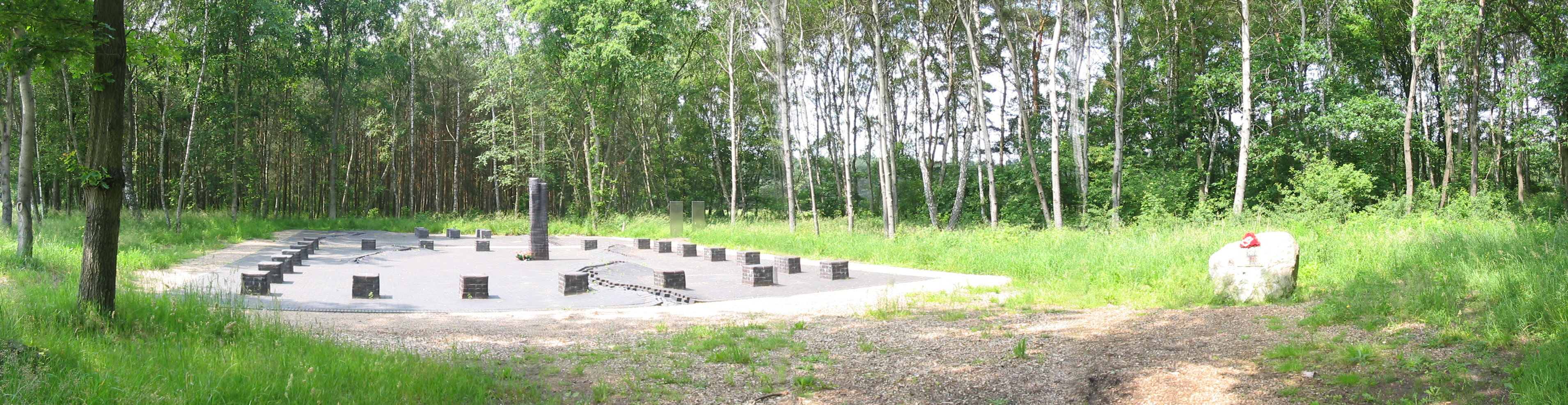 memorial of concentration camp near Wöbbelin, district Ludwigslust-Parchim, Germany (Artist: Dörte Michaelis)